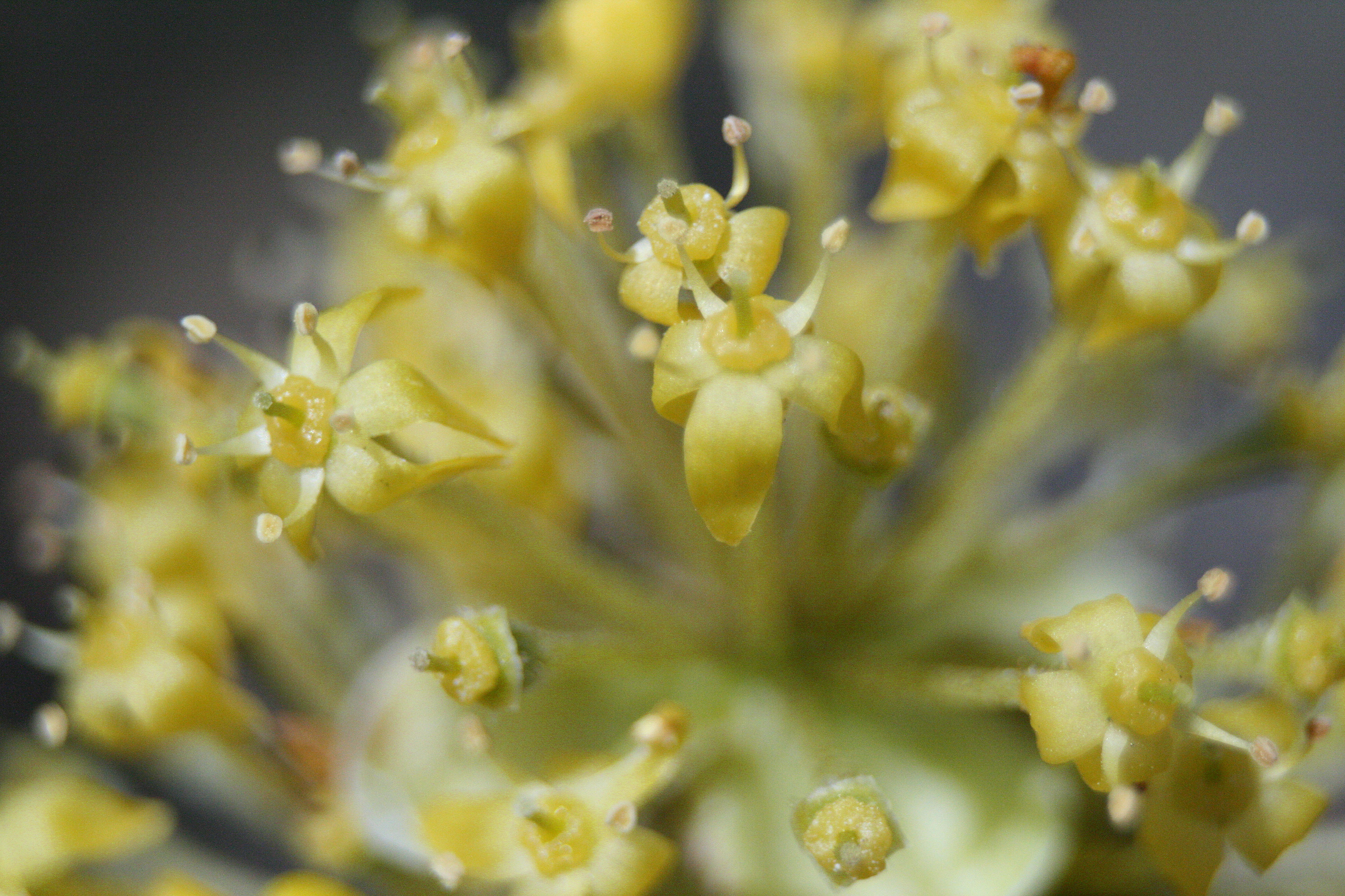 Flowers of cornus mas